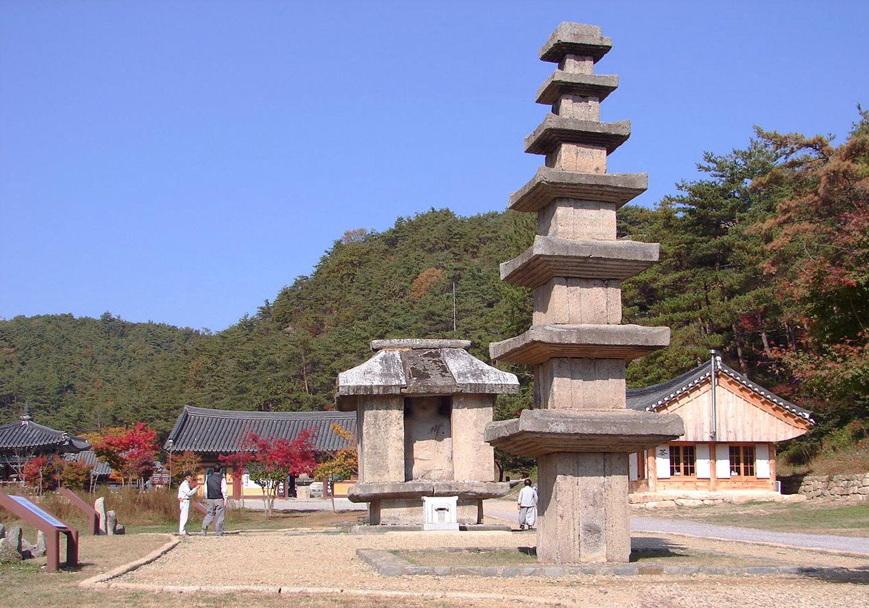 Unjusa Chilcheung Seoktap Facing Unjusa Seokjo Bulgam (seven-storied stone pagoda facing the stone Buddhist shrine at Unjusa) at Unjusa near Gwangju (Hwasun/Yongyang)